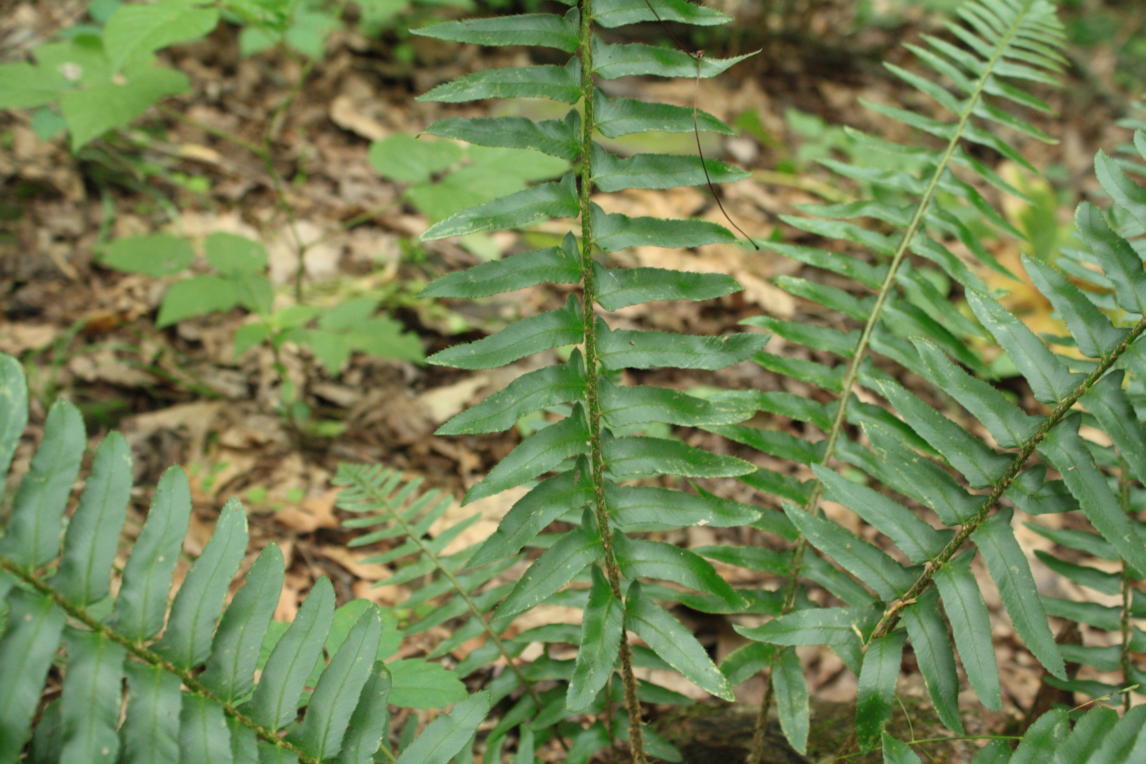 Ferns.